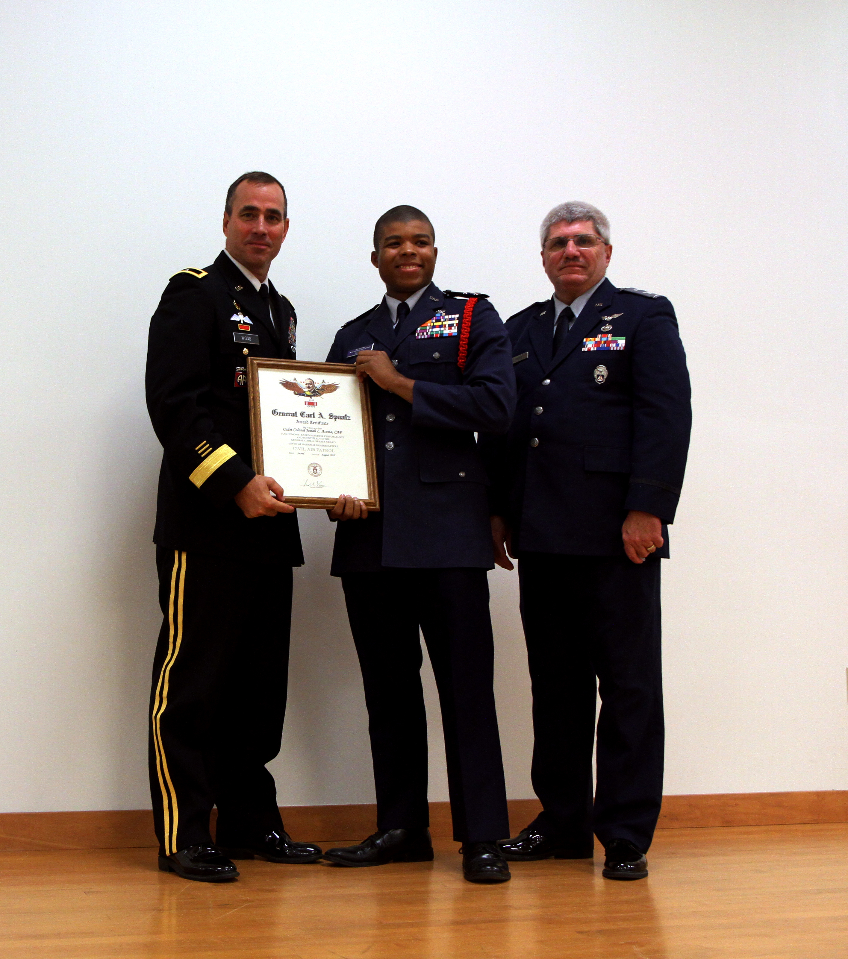 Brig. Gen. David Wood, director of the joint staff, Joint Force Headquarters, Pennsylvania National Guard, and Col. Gary Fleming, wing commander of the Pennsylvania Civil Air Patrol Wing, present Cadet Col. Josiah Acosta with the Gen. Carl A. Spaatz Award for exceptional service in the Civil Air Patrol’s cadet program during the 10th annual Cadet Conference held September 23, 2017 at Fort Indiantown Gap, Pa. (U.S. Army National Guard photo by Spc. Anna Churco)